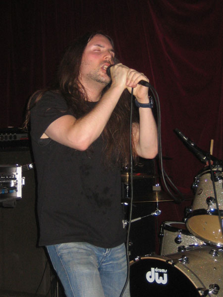 Alan Dubin, vocalist of doom metal band Khanate.